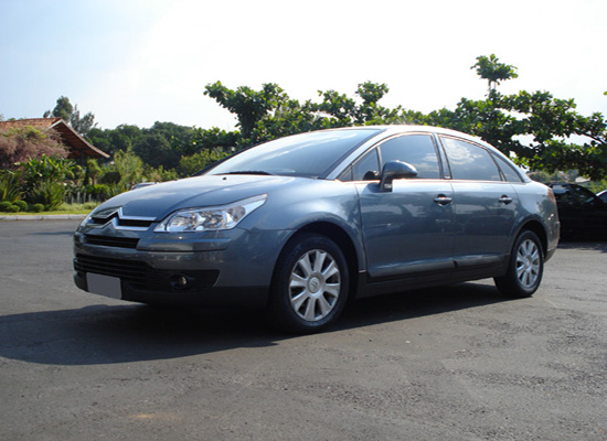 Citroën C4 Pallas.